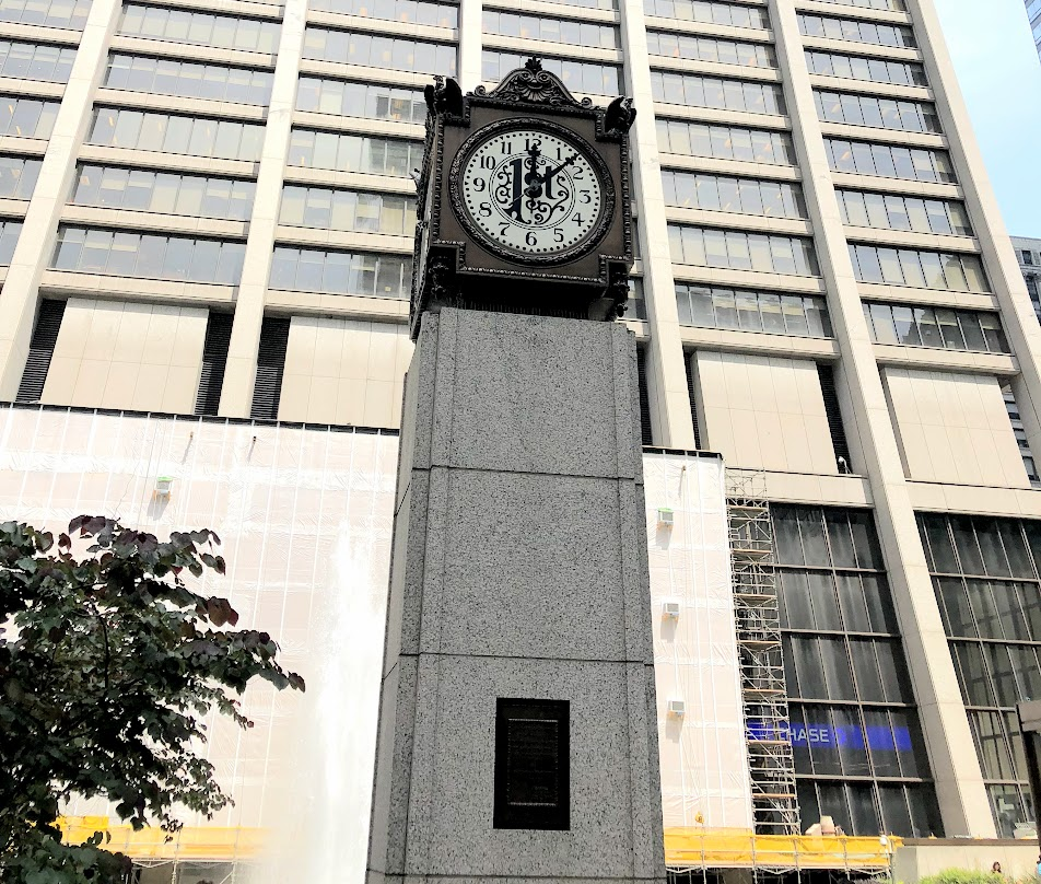 First National Bank clock located at Exelon Plaza next to the Chase Tower. The tower was originally called First National Plaza.